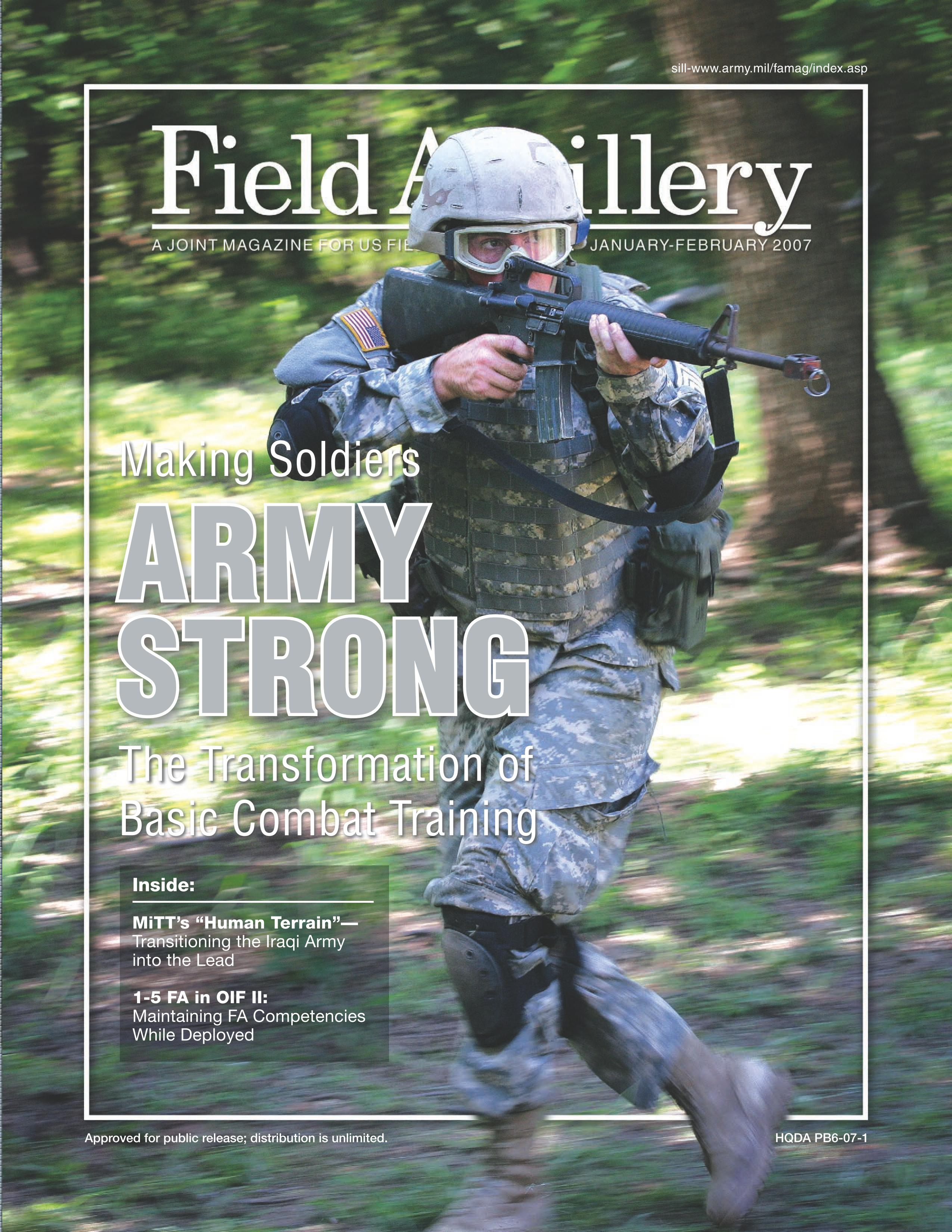 Cover of the last edition of Field Artillery.